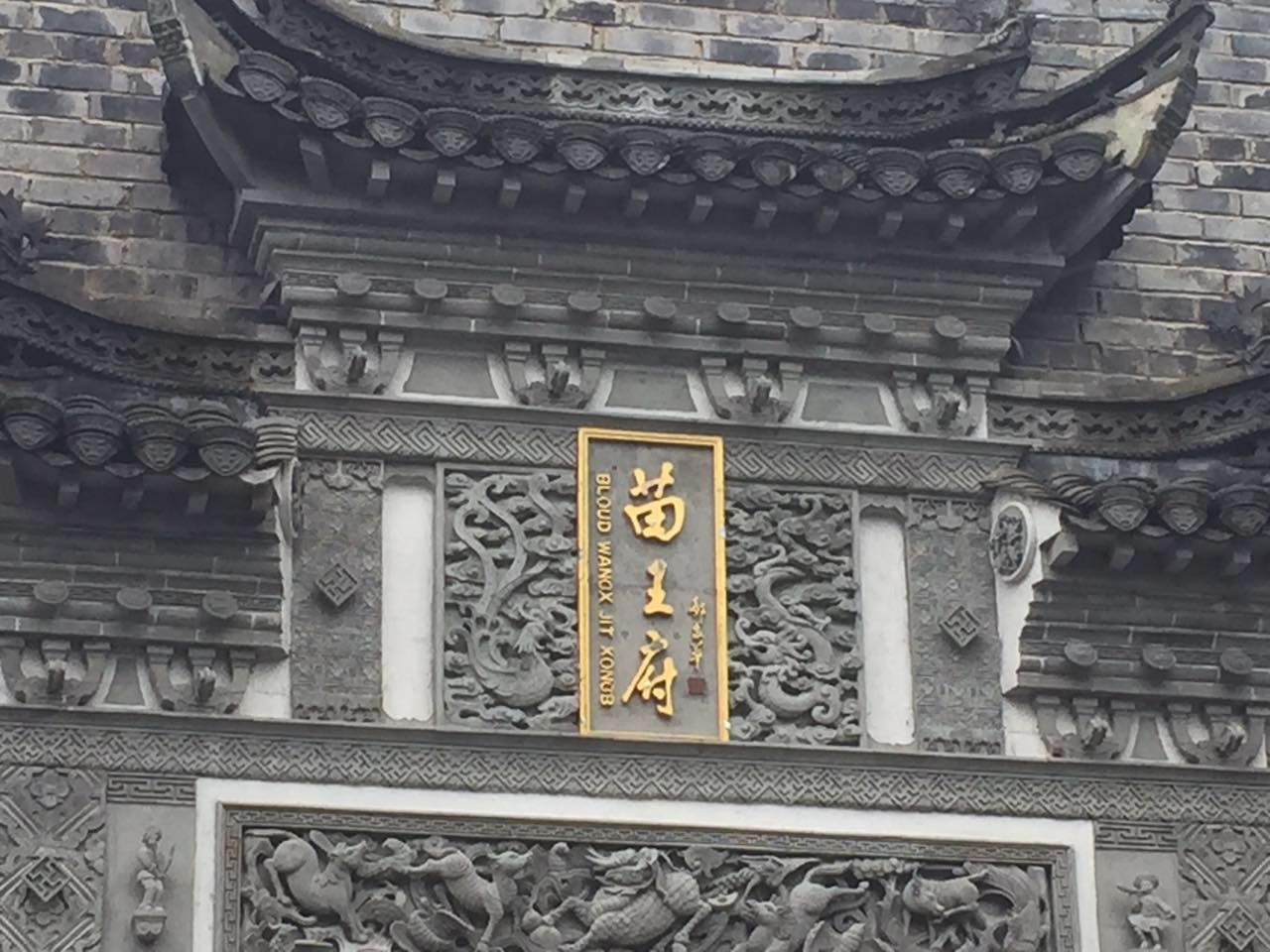 The mansion of Xong's king